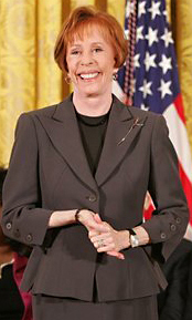 Carol Burnett, receiving a Presidential Medal of Freedom in 2005 (cropped).